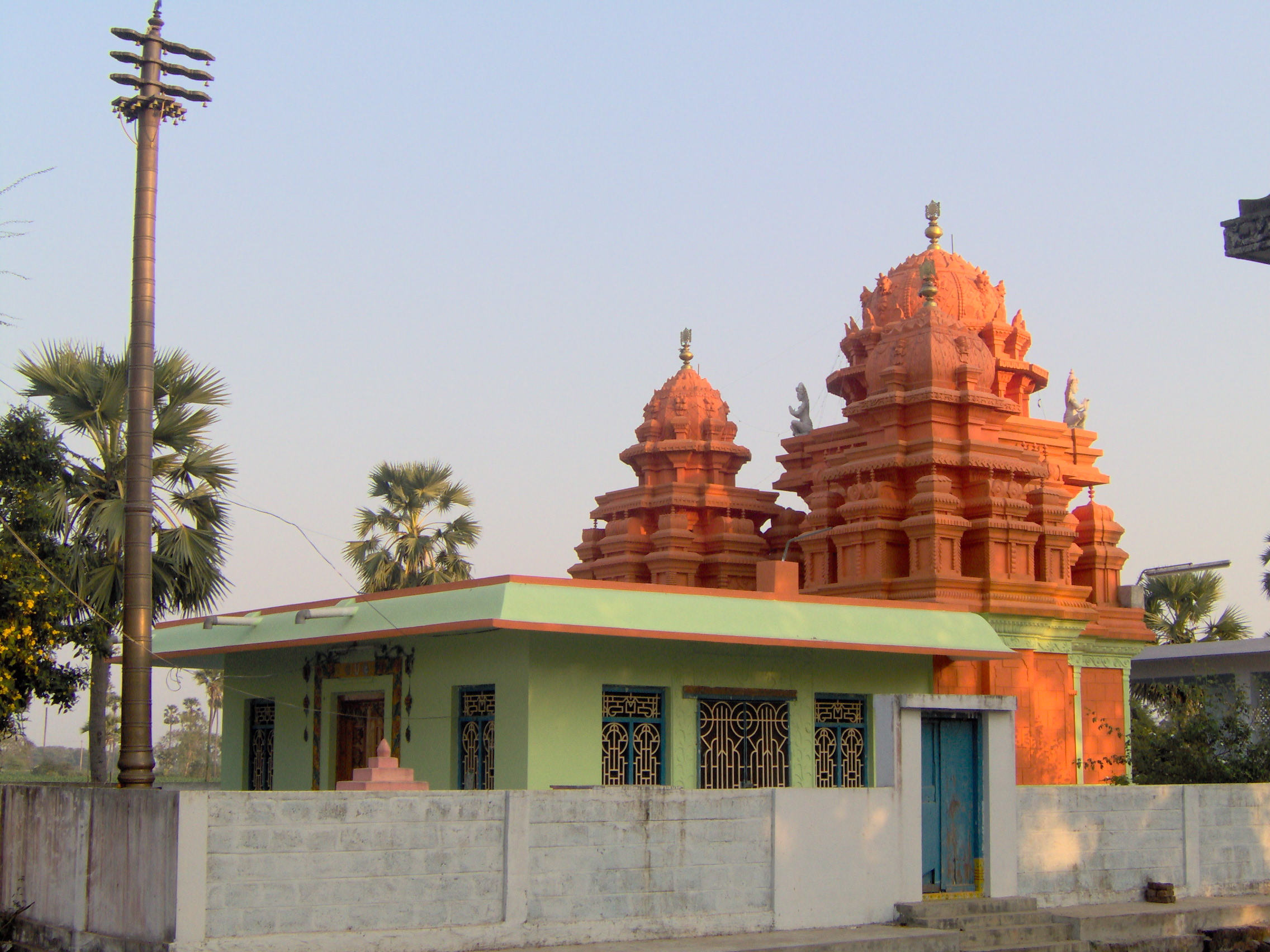 it is my work and the photograph taken in my village